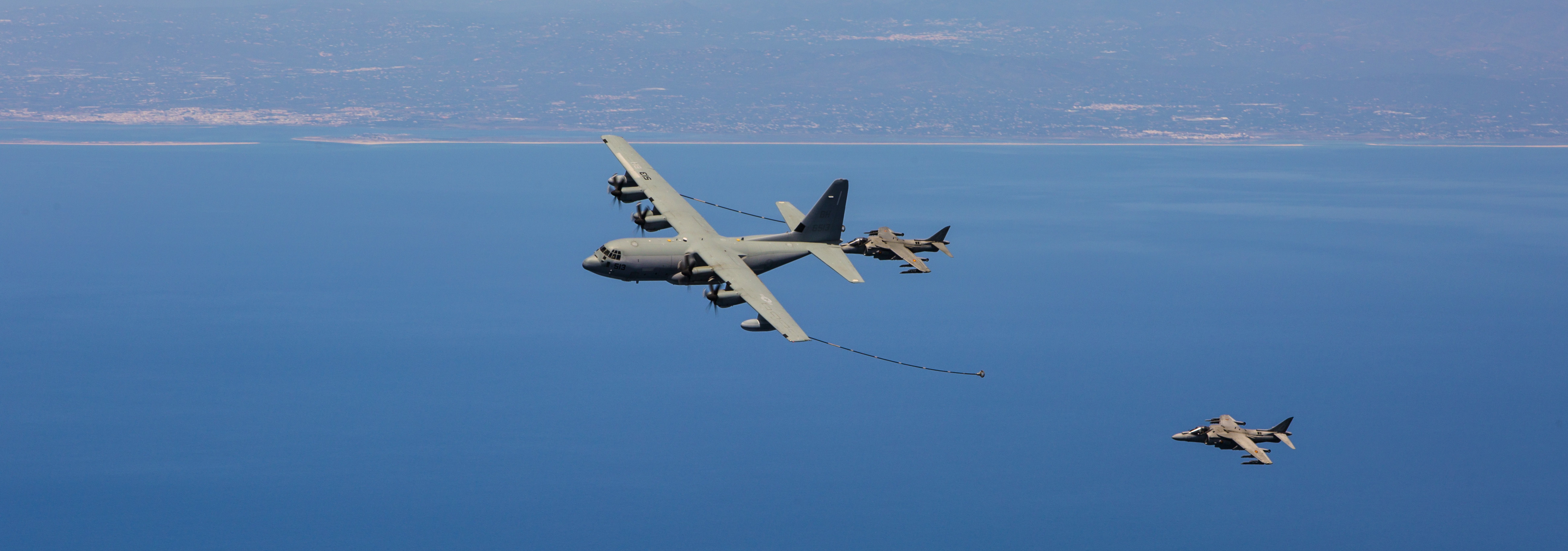 Two Spanish Navy Harriers fly behind a U.S. Marine KC-130J from Special-Purpose Marine Air-Ground Task Force Crisis Response-Africa during aerial-refueling training off the coast of Spain May 15, 2015. The aircraft linked up over the water and flew in formation to allow the Spanish pilots to test their ability to connect to the refueling lines on the KC-130J. (U.S. Marine Corps photo by Sgt. Paul Peterson/Released)